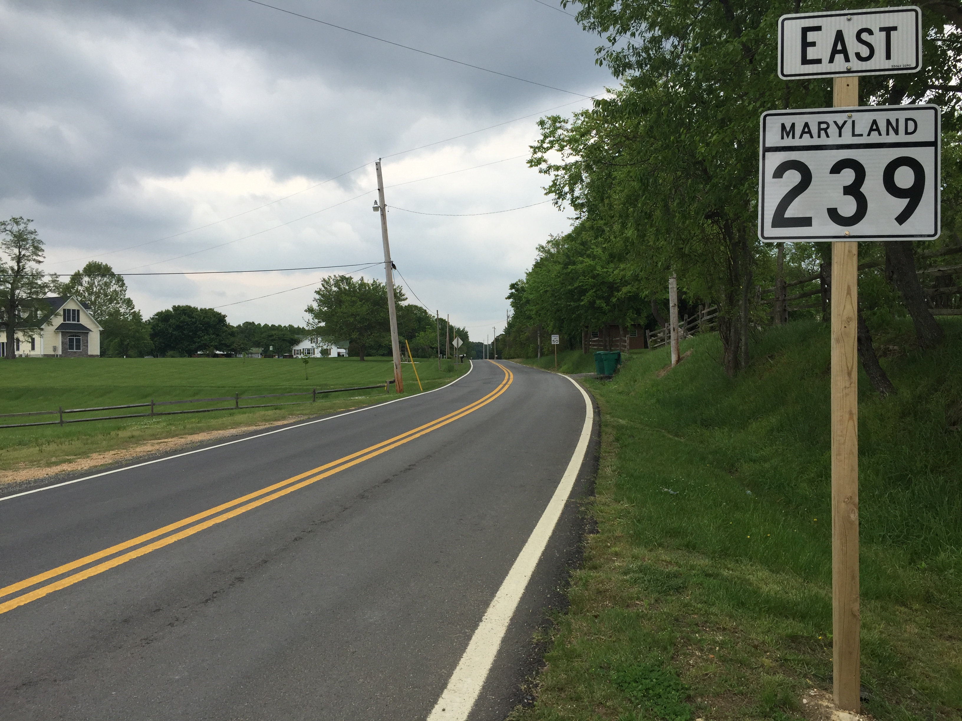 View east from the west end of Bushwood Wharf Road (Maryland State Route 239) in Bushwood, St. Mary's County, Maryland